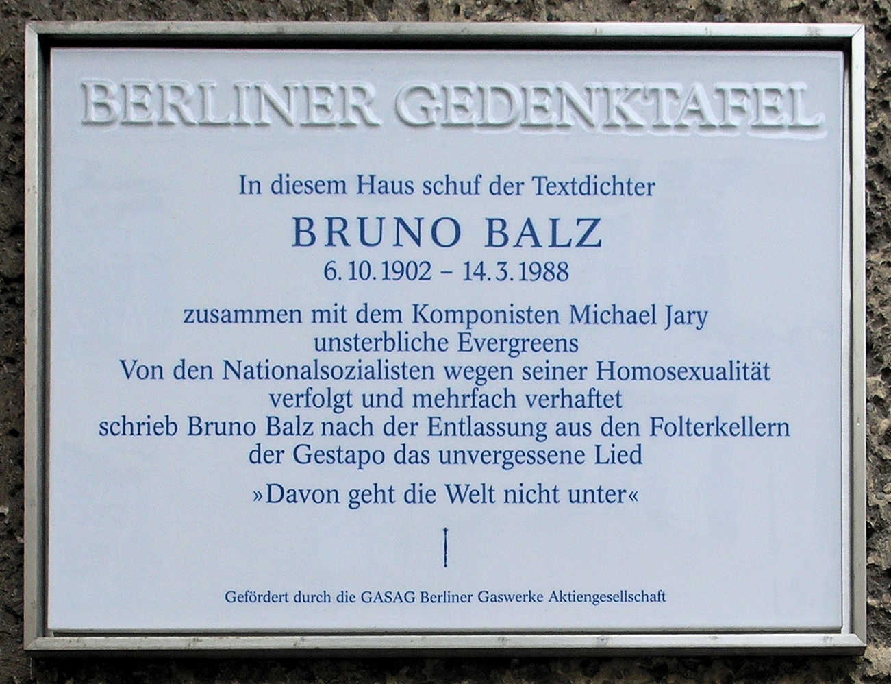 Berlin memorial plaque, Bruno Balz, Fasanenstraße 60, Berlin-Wilmersdorf, Germany